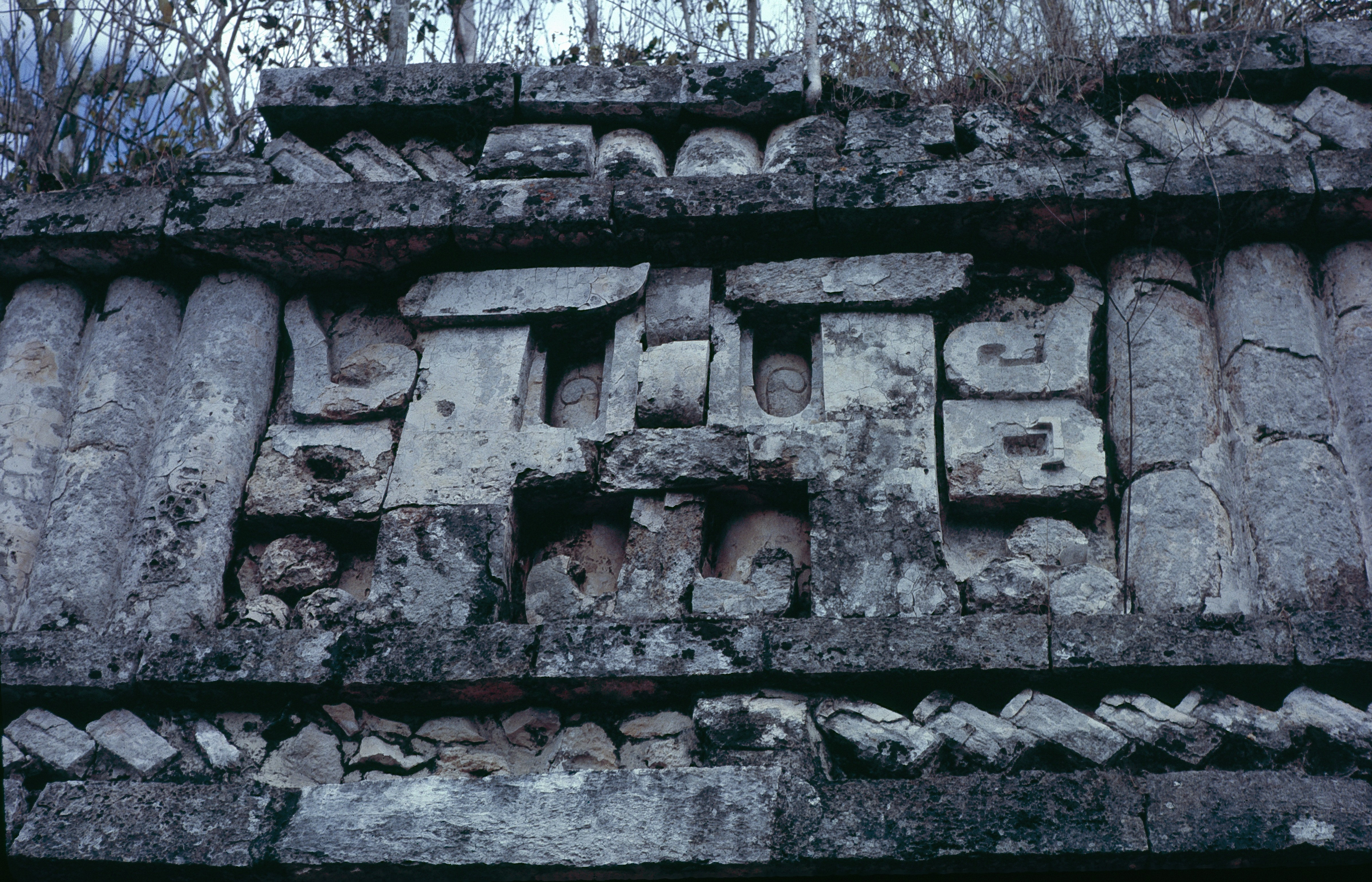 Xkichmnook, Yucatan, Mexico: Palace